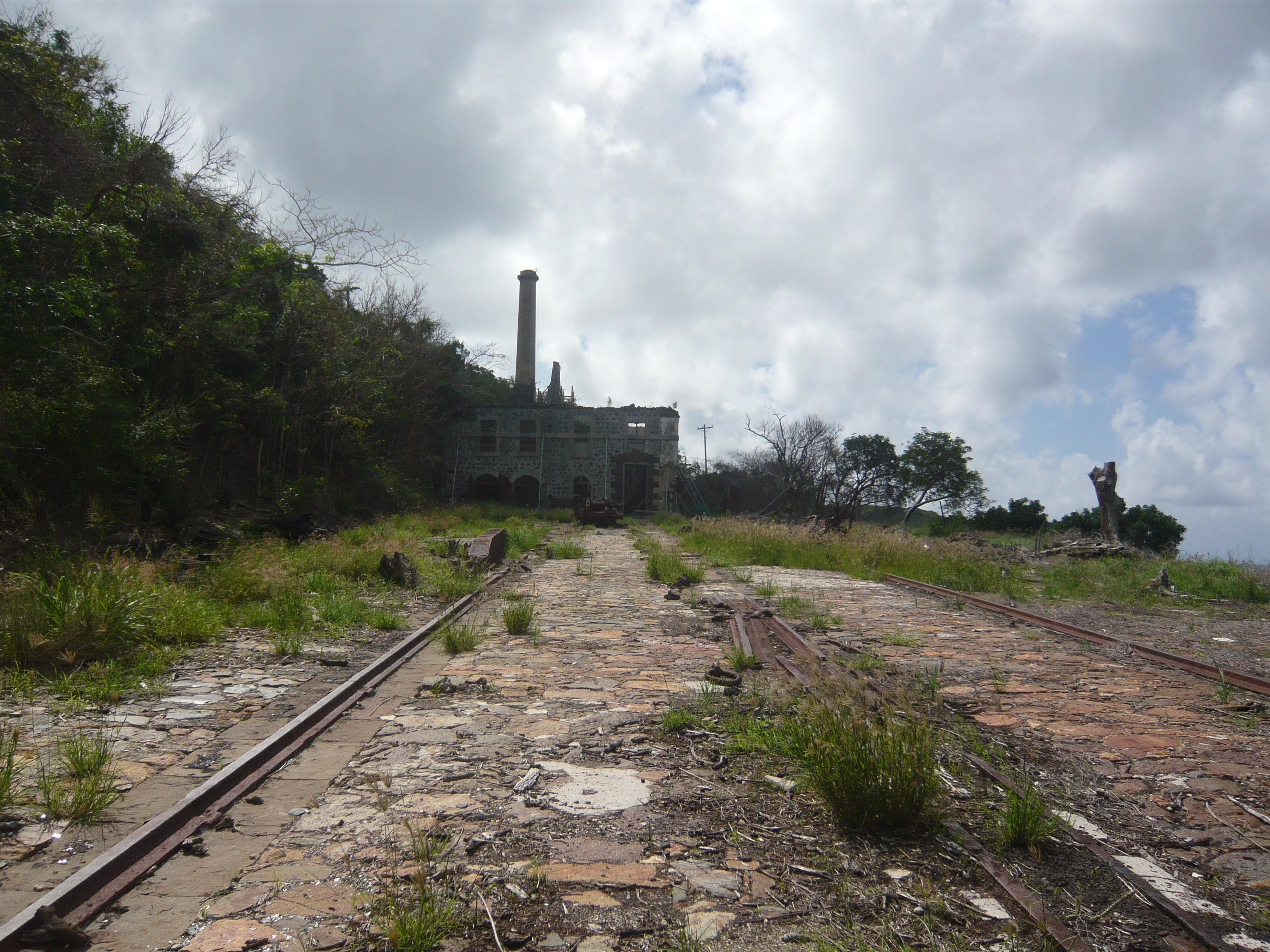 Historic Creque Marine Railway and powerhouse — within the Hassel Island Historic District on Hassel Island, in Virgin Islands National Park, off St. Thomas in the U.S. Virgin Islands.